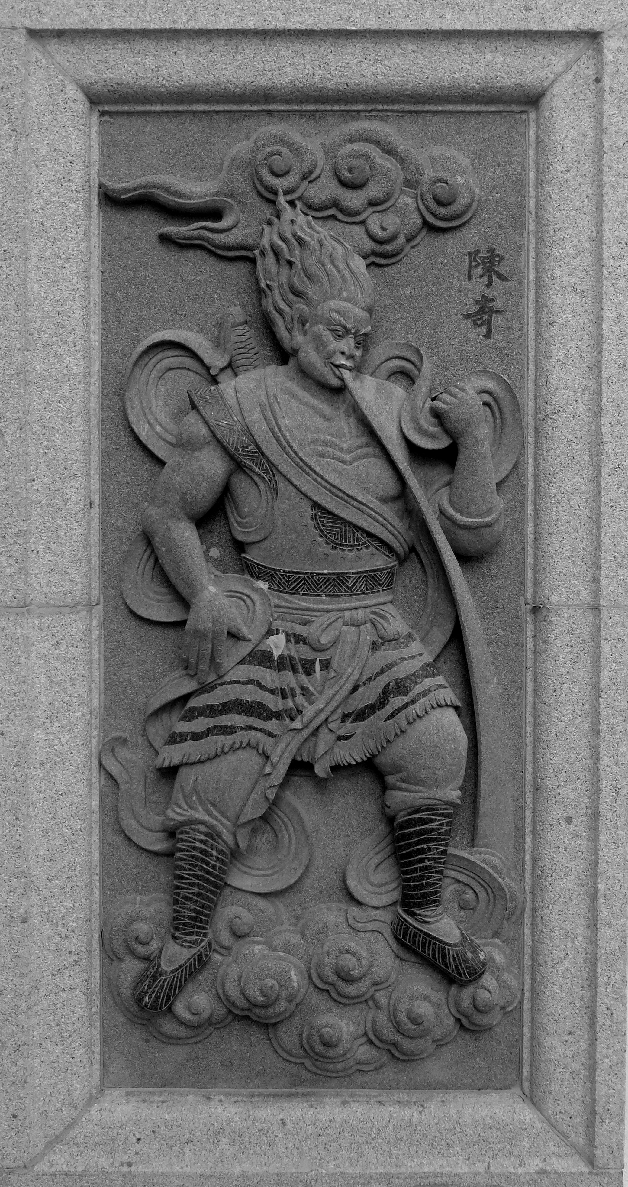 067 Chen Qi, Investiture of the Gods at Ping Sien Si, Pasir Panjang, Perak, Malaysia Photograph from the Ping Sien Si Temple in Perak, Malaysia taken by Anandajoti.